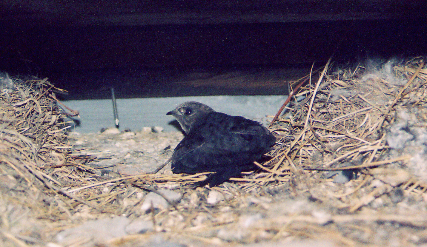 Apus pallidus at nest in loft space of a building, Sofia, Bulgaria. Bird incubating second brood eggs.